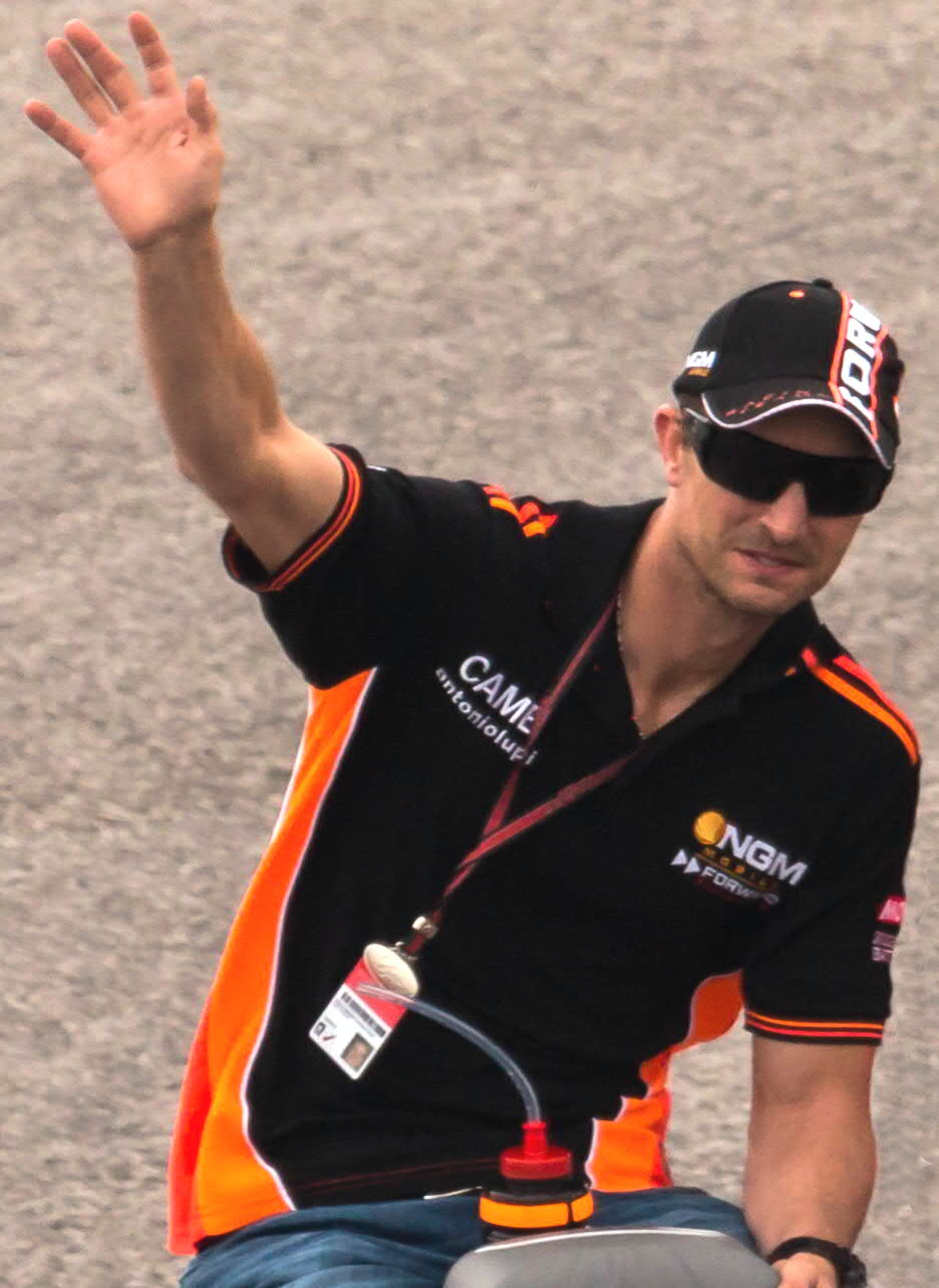 Colin Edwards wearing NGM colours waving to spectators from an open-top car at 2014 Motorcycle Grand Prix of the Americas